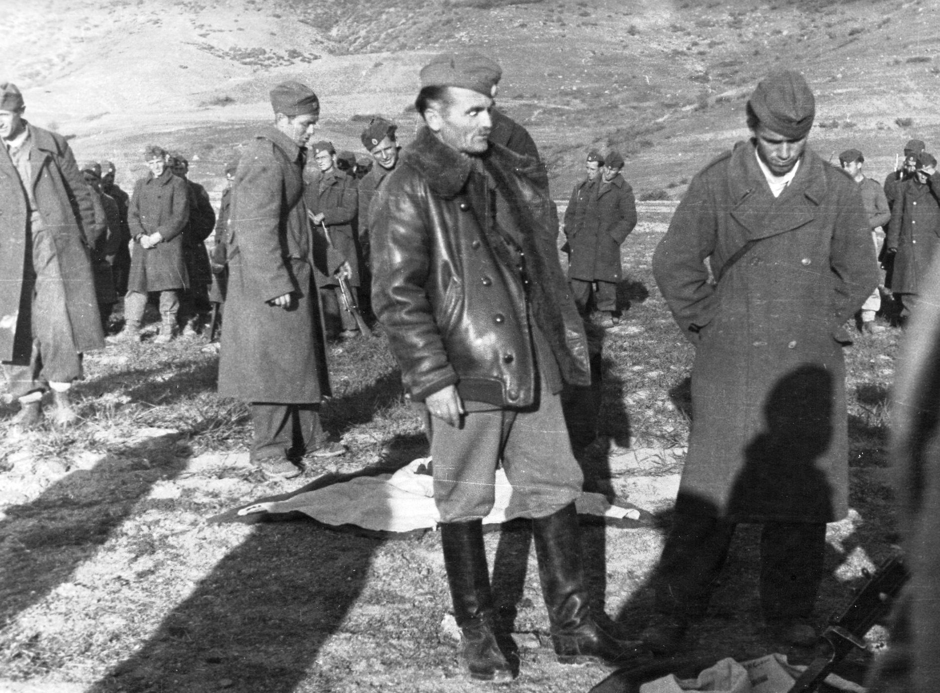 Guerrilla fighters of Democratic Army of Greece This media file is produced by Wikipedian in Residence in Category:Wikipedian in Residence at DARM in 2016.